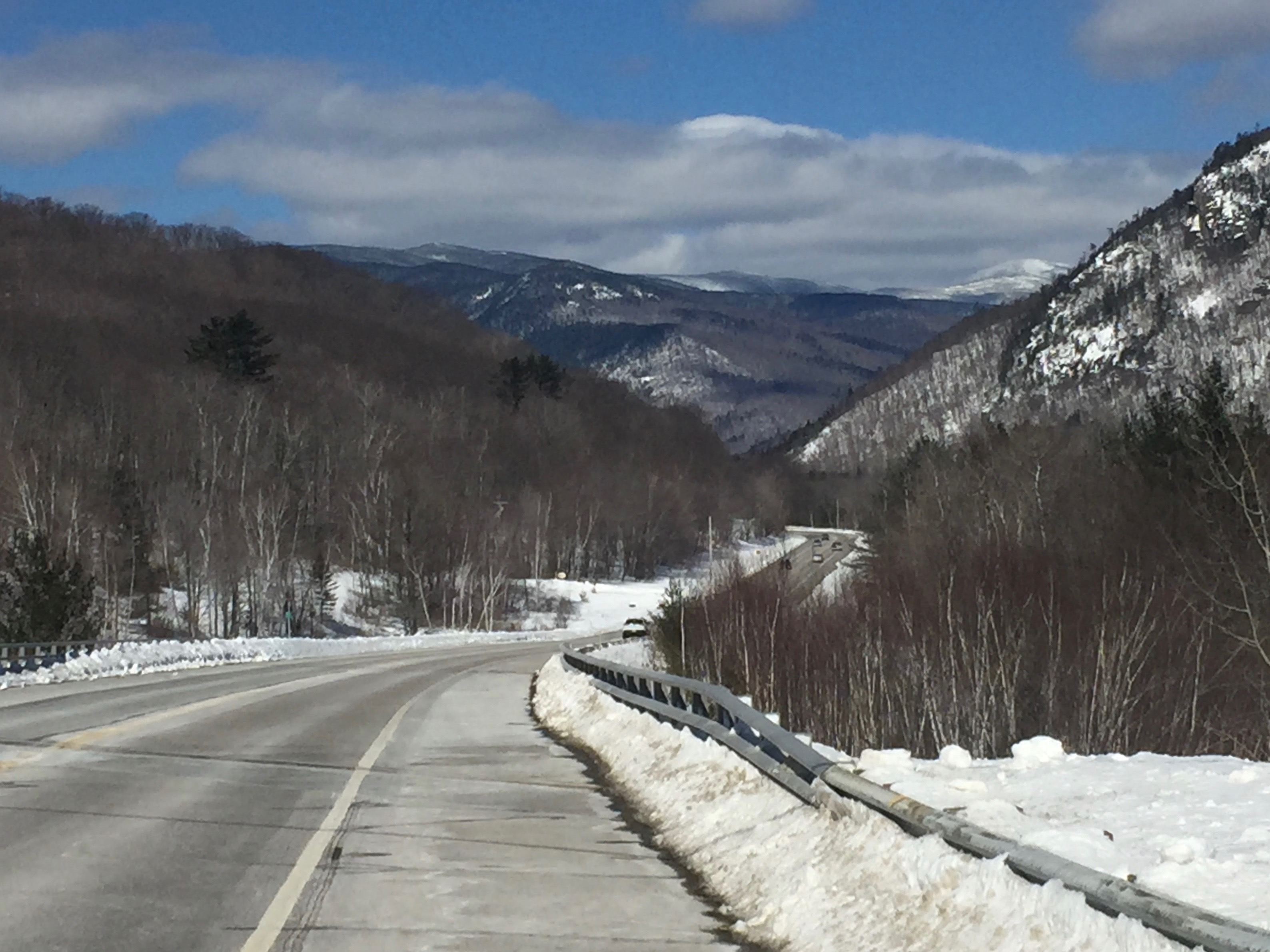 View of the Saco River valley in Hart's Location, New Hampshire